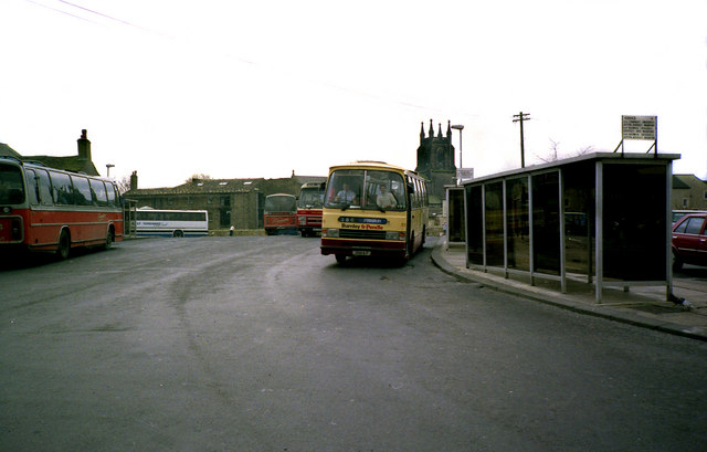 Skipton Bus Station Recalling the short period when Route 280 (Skipton to Preston) was worked by Burnley and Pendle Transport.